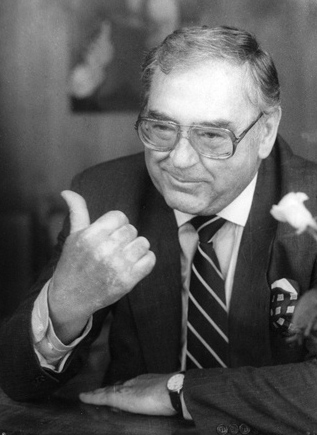 Jiří Horák, former leader of the Czech Social Democratic Party (ČSSD).